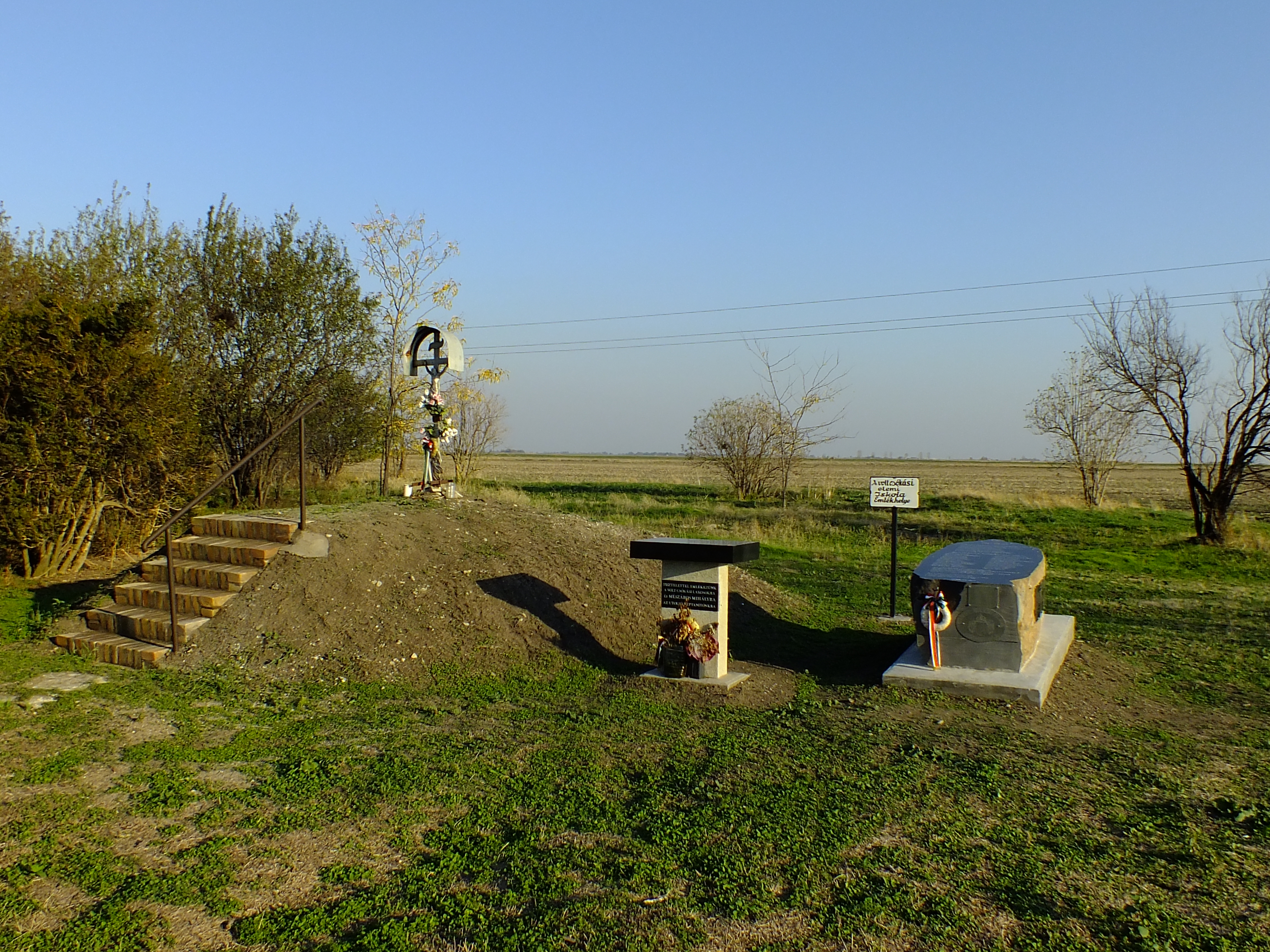 Monument in Csókás, periphery of Makó, commemorating the former elementary school and its teachers.